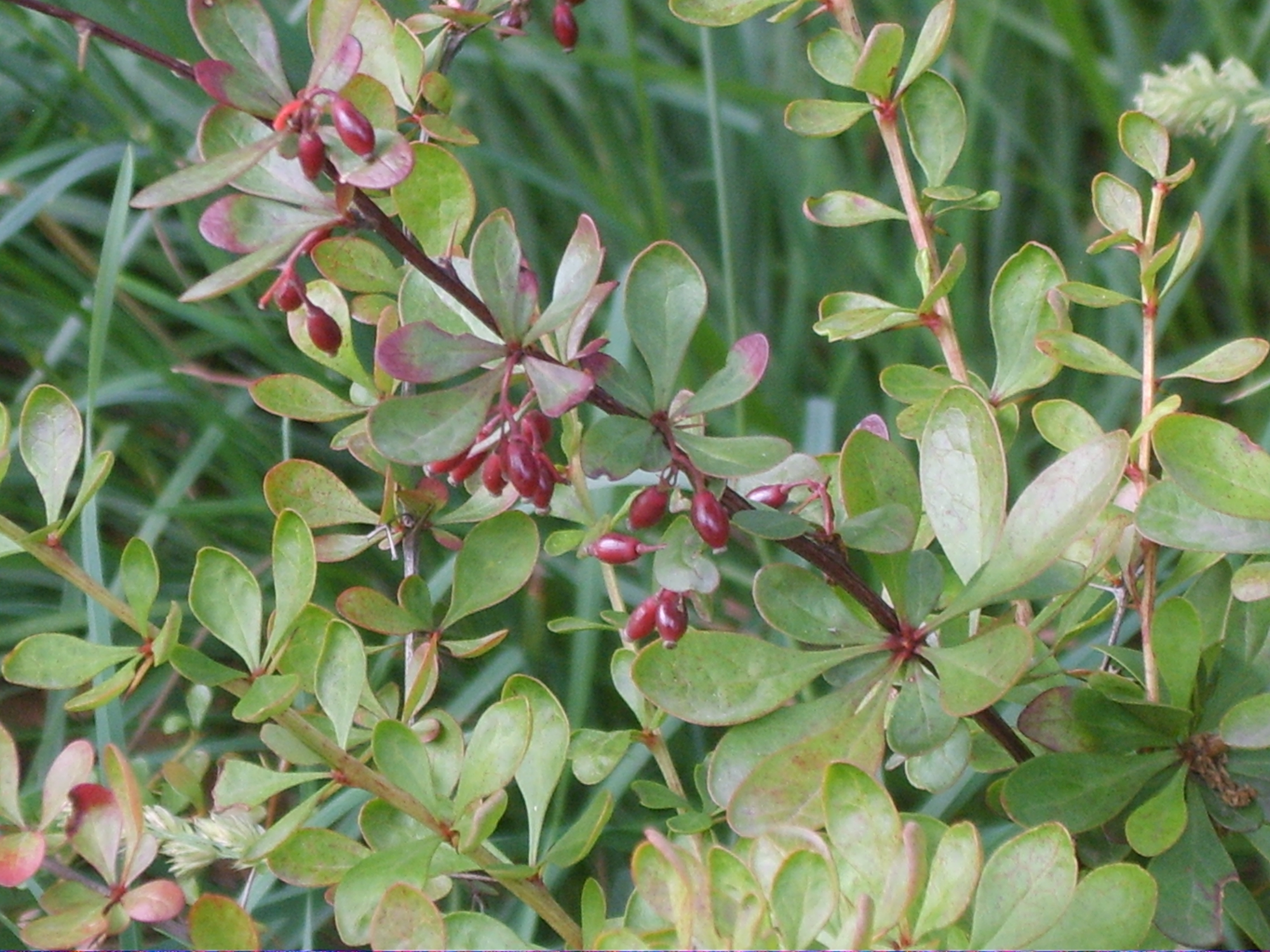 Berberis thunbergii's fruit in Bupyung, Korea